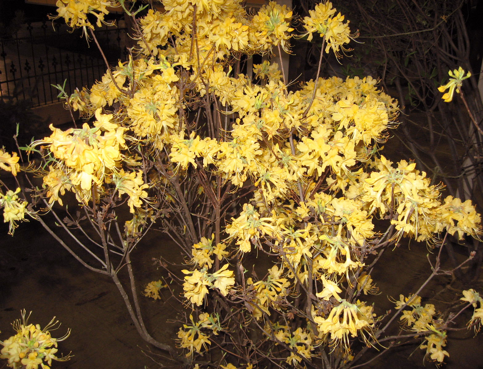 Rhododendron austrinum at 2010 Philadelphia Int'l Flower Show